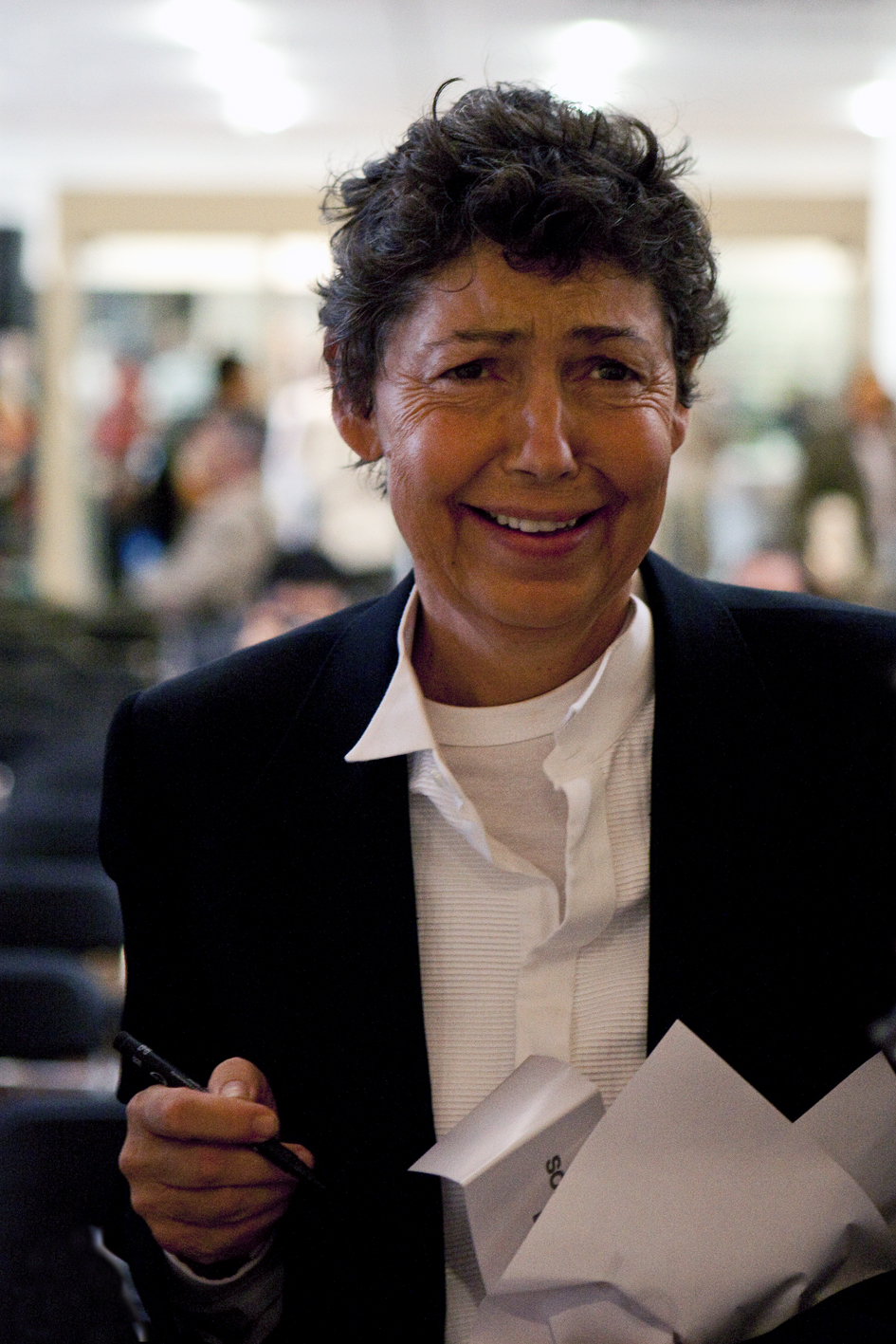 German Sculptor Isa Genzken at exhibition opening, colognem Museum Ludwig (2009.08.14)